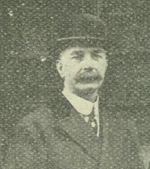 W. A. Appleton, secretary of the General Federation of Trade Unions, while on a trade union delegation to Washington DC in 1916